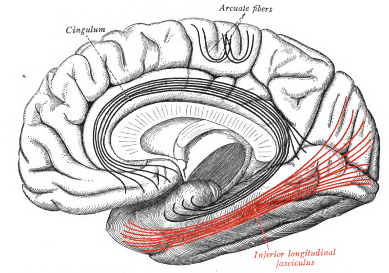 Inferior longitudinal fasciculus. Association fiber running along the lateral walls of the inferior and posterior cornua of the lateral ventricle in brain.